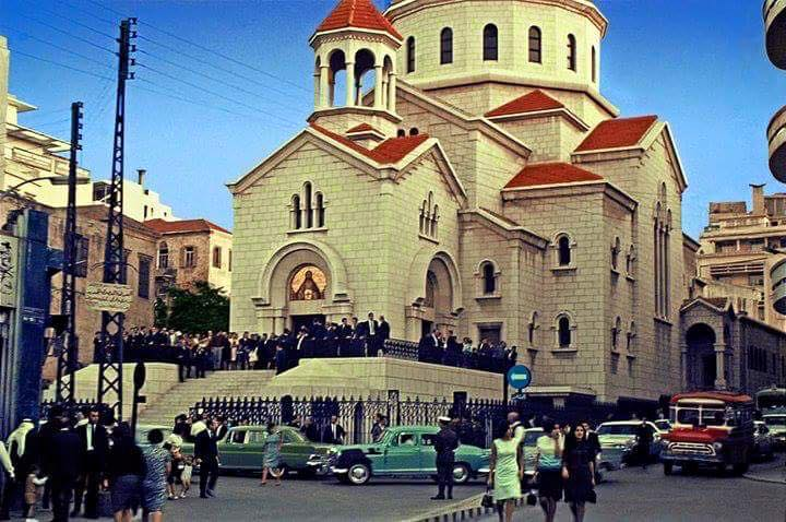 Beirut Armenian Catholic Cathedral 1966.